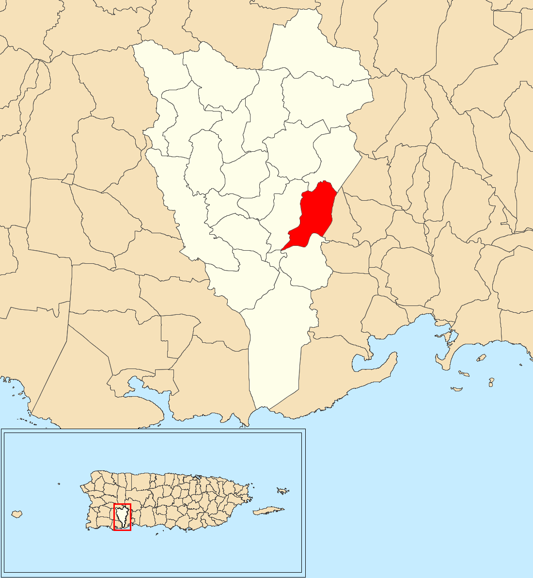 Quebradas, Yauco, Puerto Rico locator map